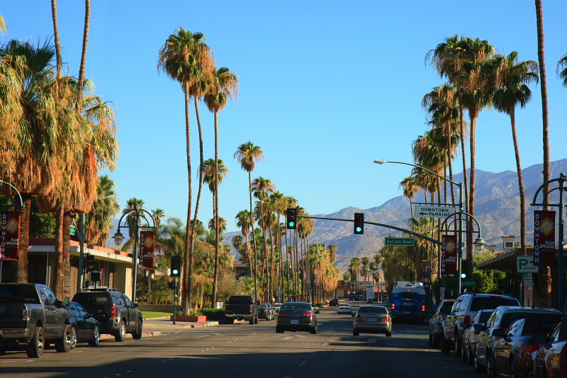 Palm Canyon Drive (California State Route 111) in Downtown Palm Springs, California.